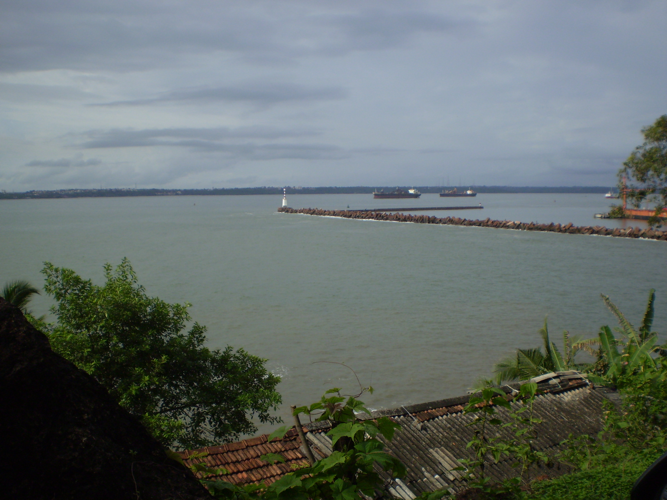 This is a view of the Breakwater at Mormugao Port, Vasco da gama, Goa.